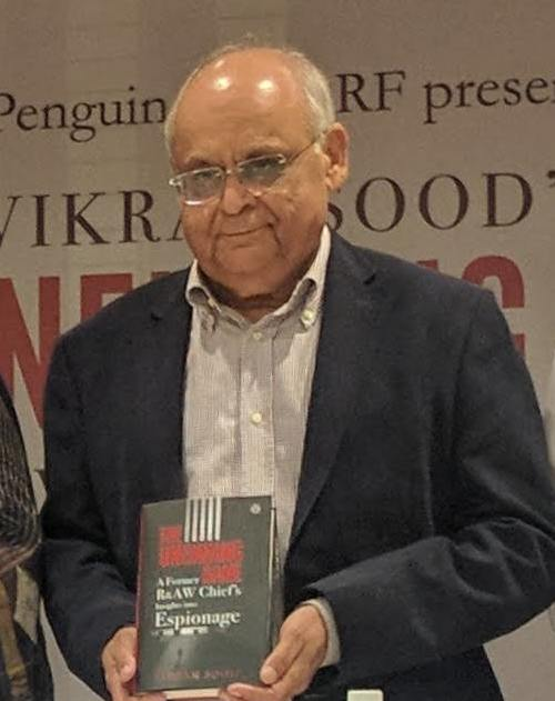 Book Launch of Vikram Sood (second from right), Intelligence Chief 2000 - 2003 , Research and Analysis Wing, India. Book launch at India International Center, New Delhi.